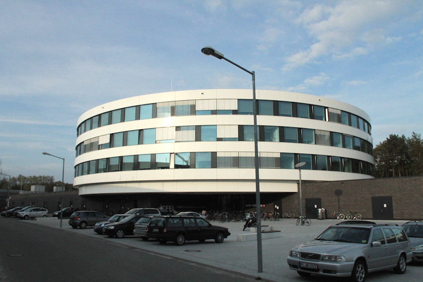 Building of Center for Free-Electron Laser Science, CFEL, at DESY campus in Hamburg.